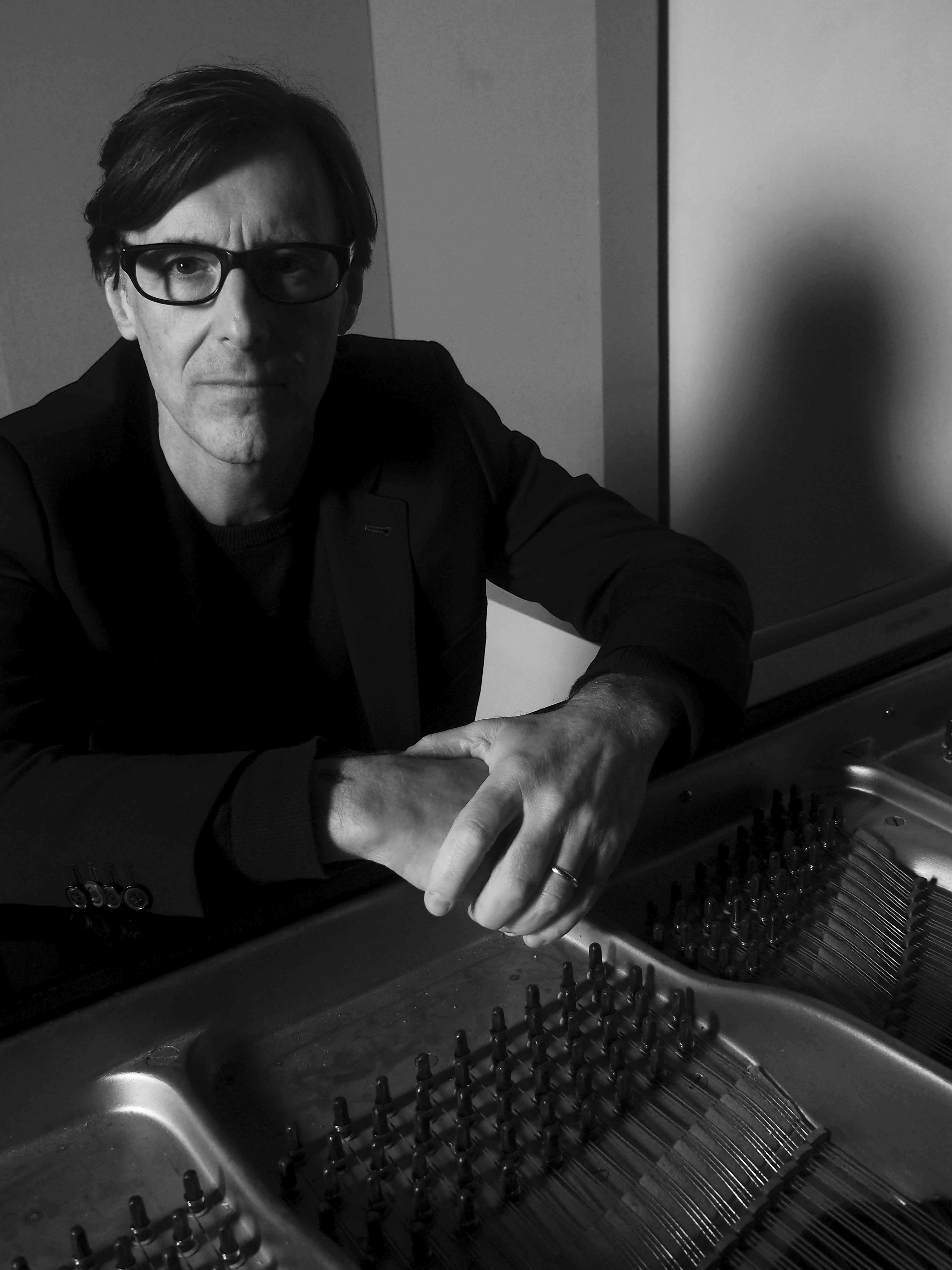 Image of composer, Michael J McEvoy